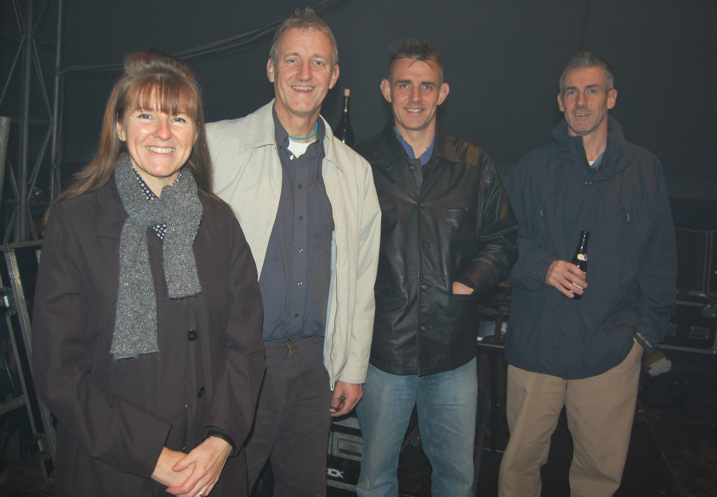 YMG after the gig at Nivilles (Belgium)